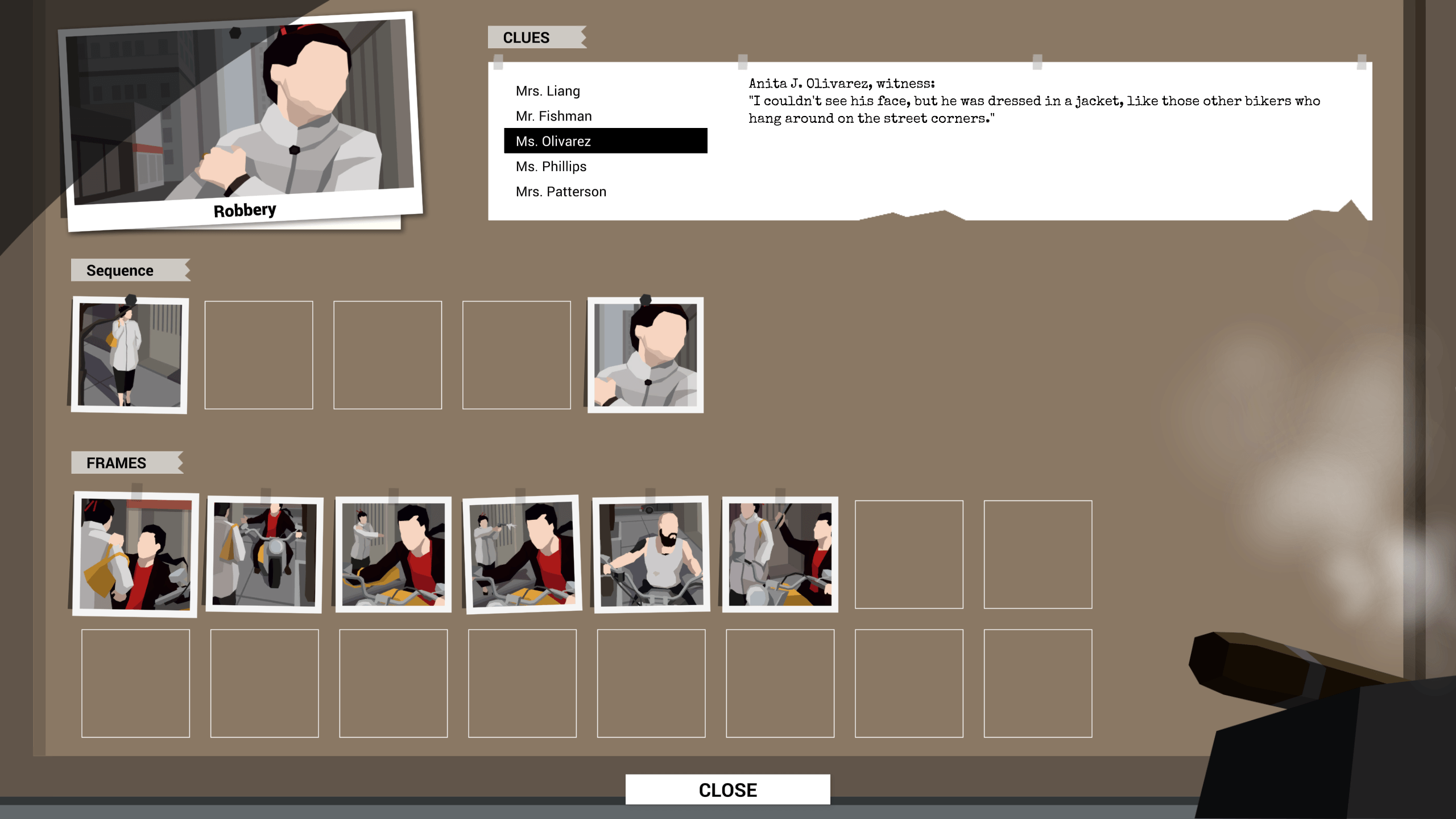 Screenshot of This Is the Police.